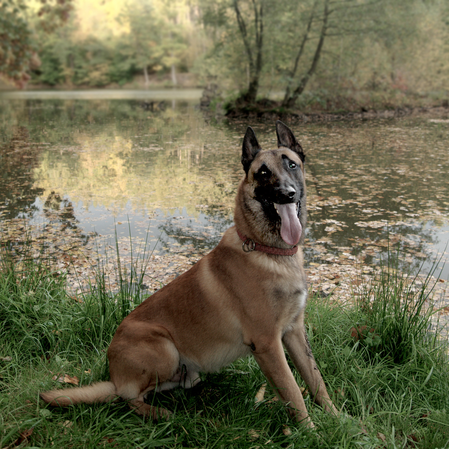 Belgian shepherd dog - Malinois